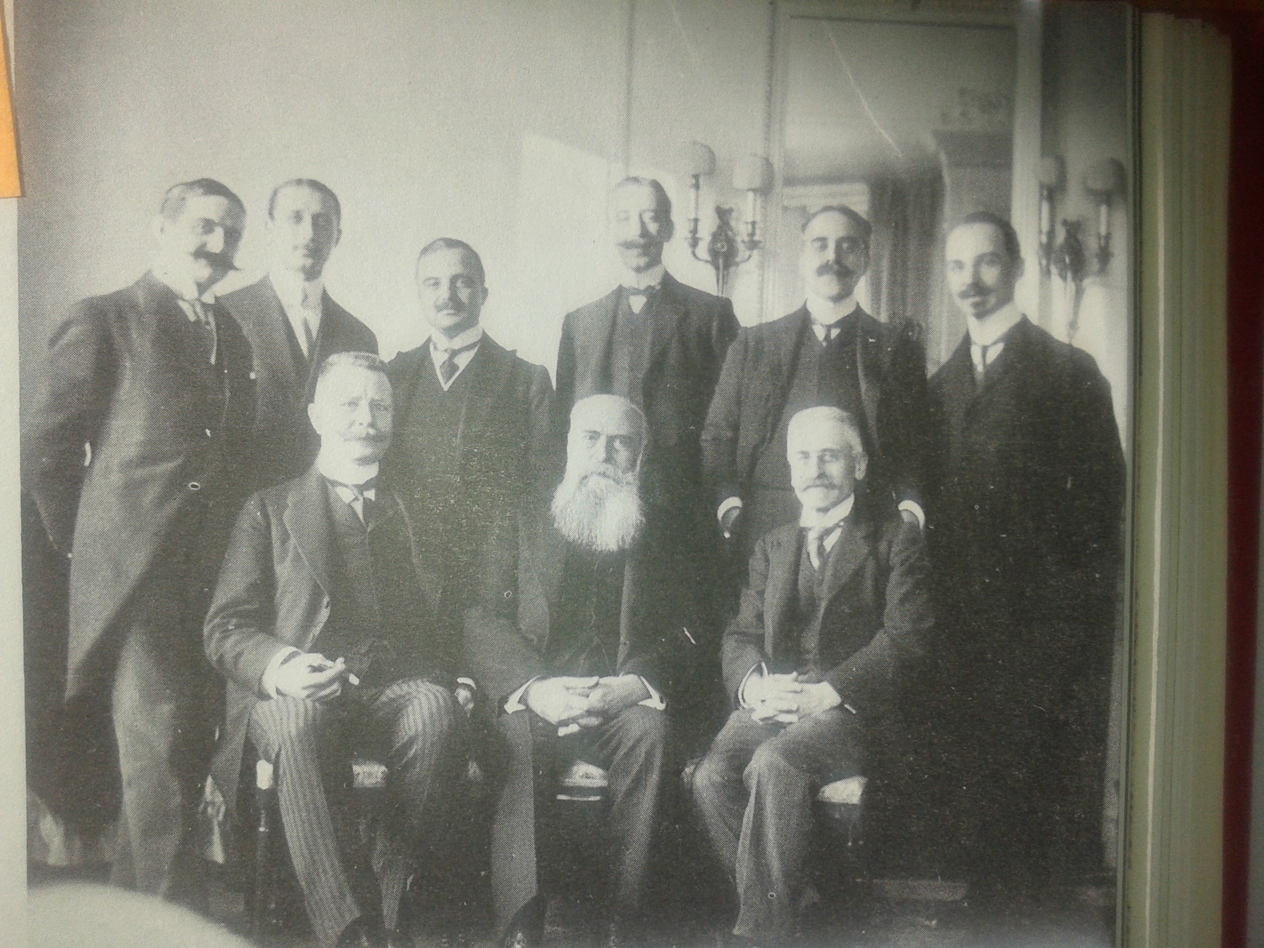 The Greek delegation at the London Peace Conference in December 1912. Front: Georgios Streit, Stefanos Skouloudis, Panagiotis Danglis. Back: Nikolaos Politis, Petros Metaxas, Ioannis Metaxas, Ioannis Karatzas, Konstantinos Dimaras and Ioannis Pappas.